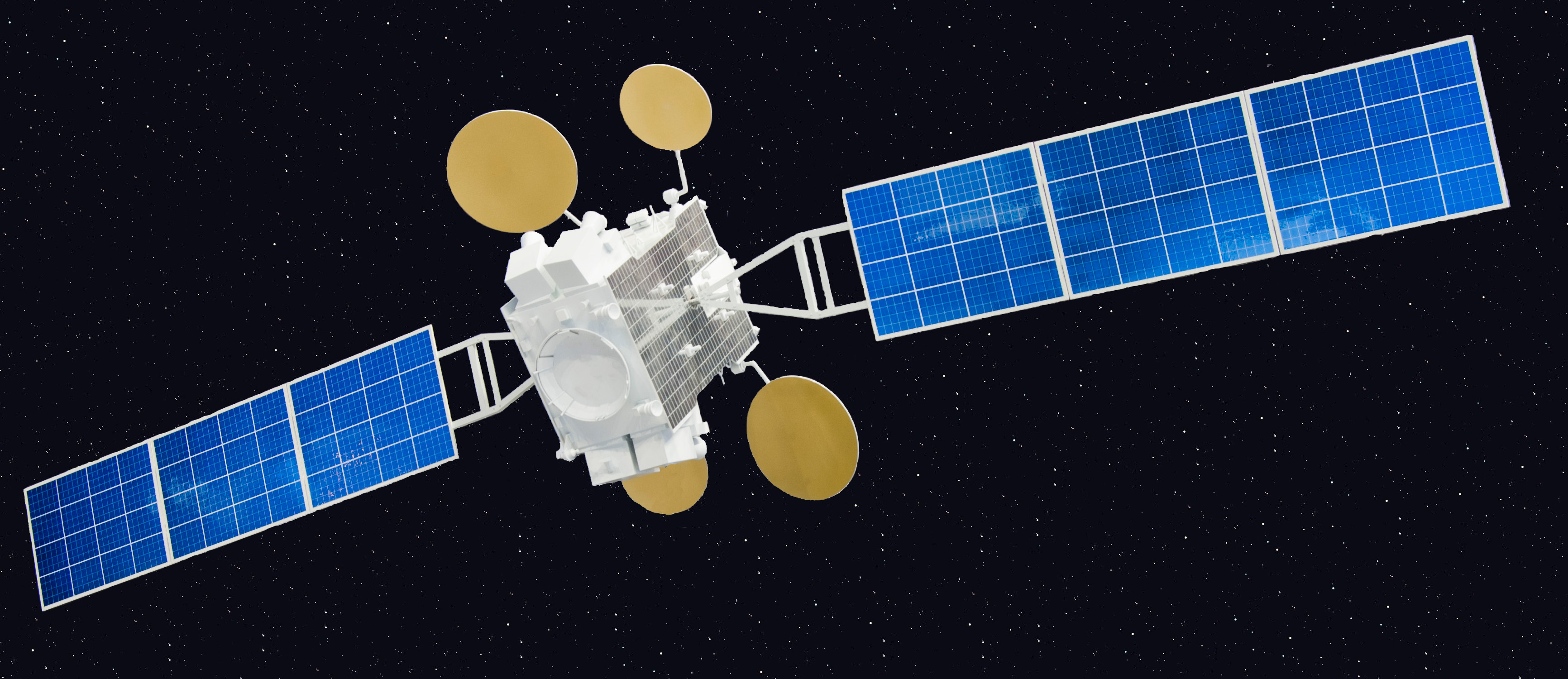 Model of Israely Amos-5 satellite during "Semana de Espacio", in IFEMA, Madrid, 05.2011. File was cropped and background was changed comparing to the original